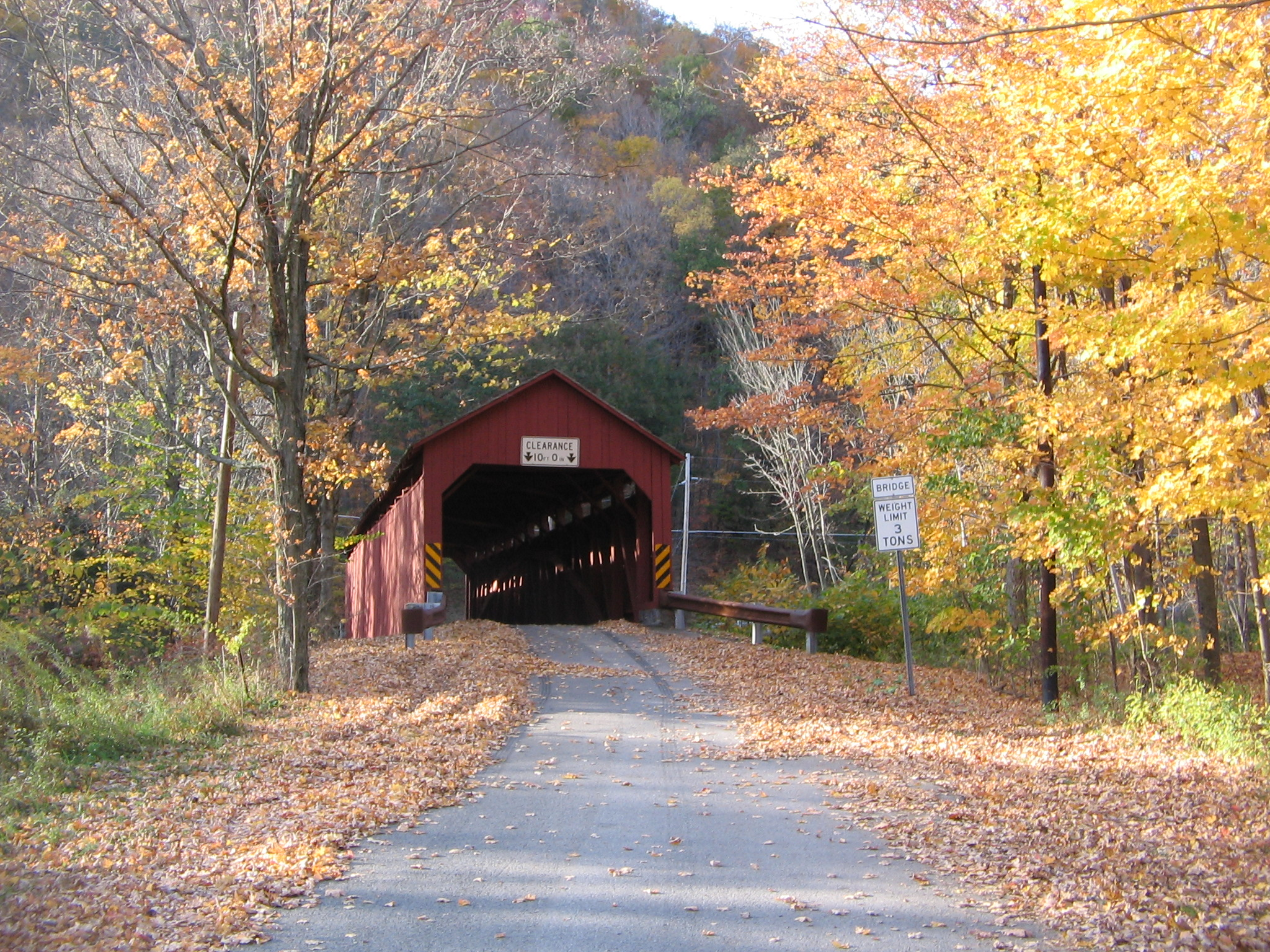 Eastern portal of Sonestown Covered Bridge over Muncy Creek in Davidson Township, Sullivan County, Pennsylvania in the United States. Built 1850, on the National Register of Historic Places.